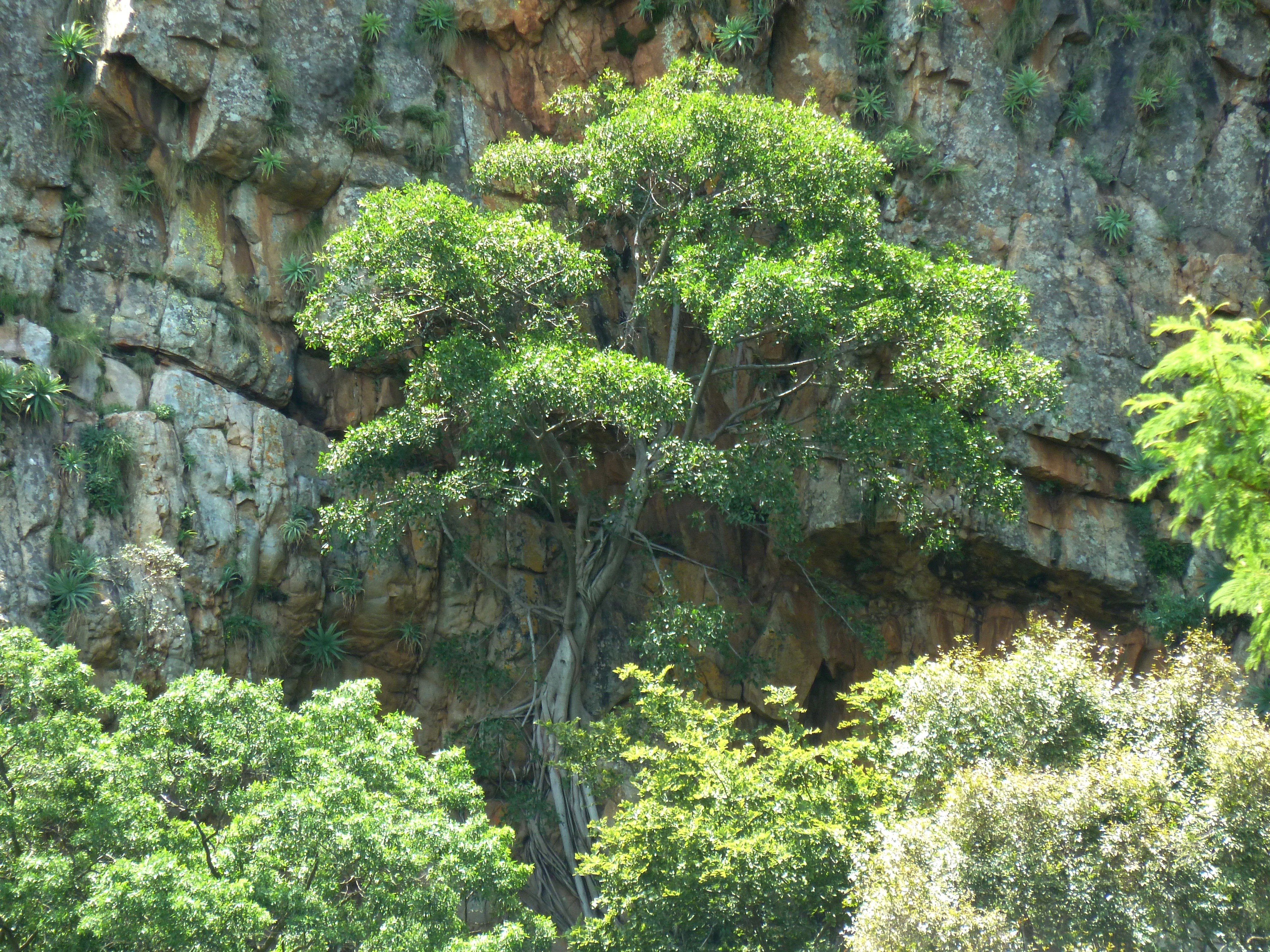 Red-leaved fig growing as a rock-splitter on a southern cliff face of the Magaliesberg near Dewetsnek, Skeerpoort, South Africa.